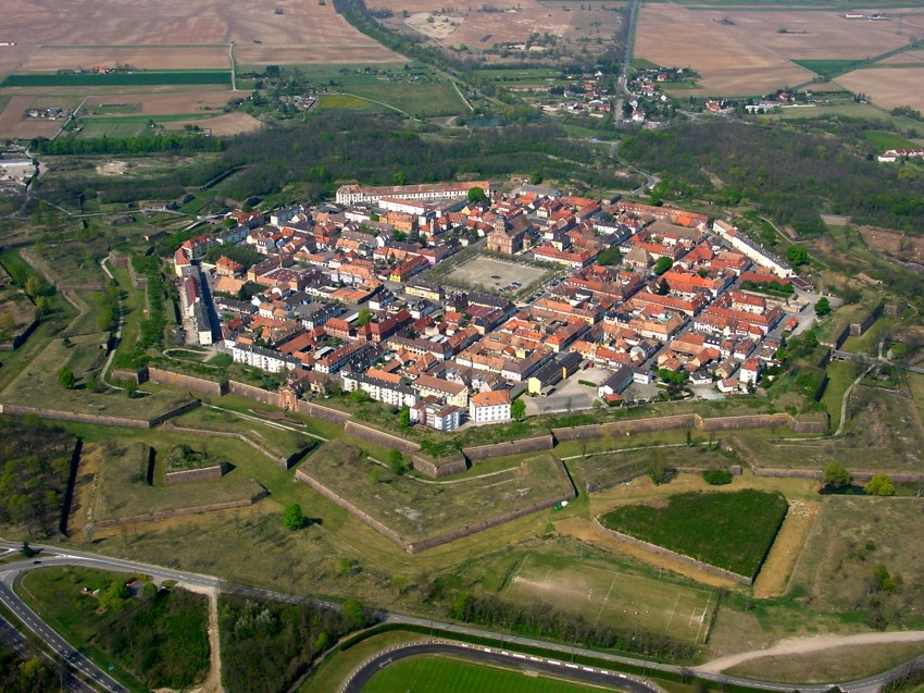 Aerial view of Neuf-Brisach taken during a balloon flight